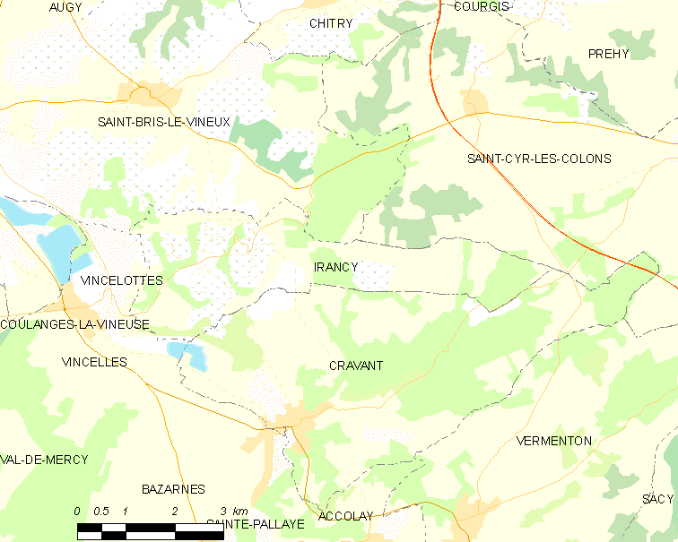 Map of French municipality Irancy